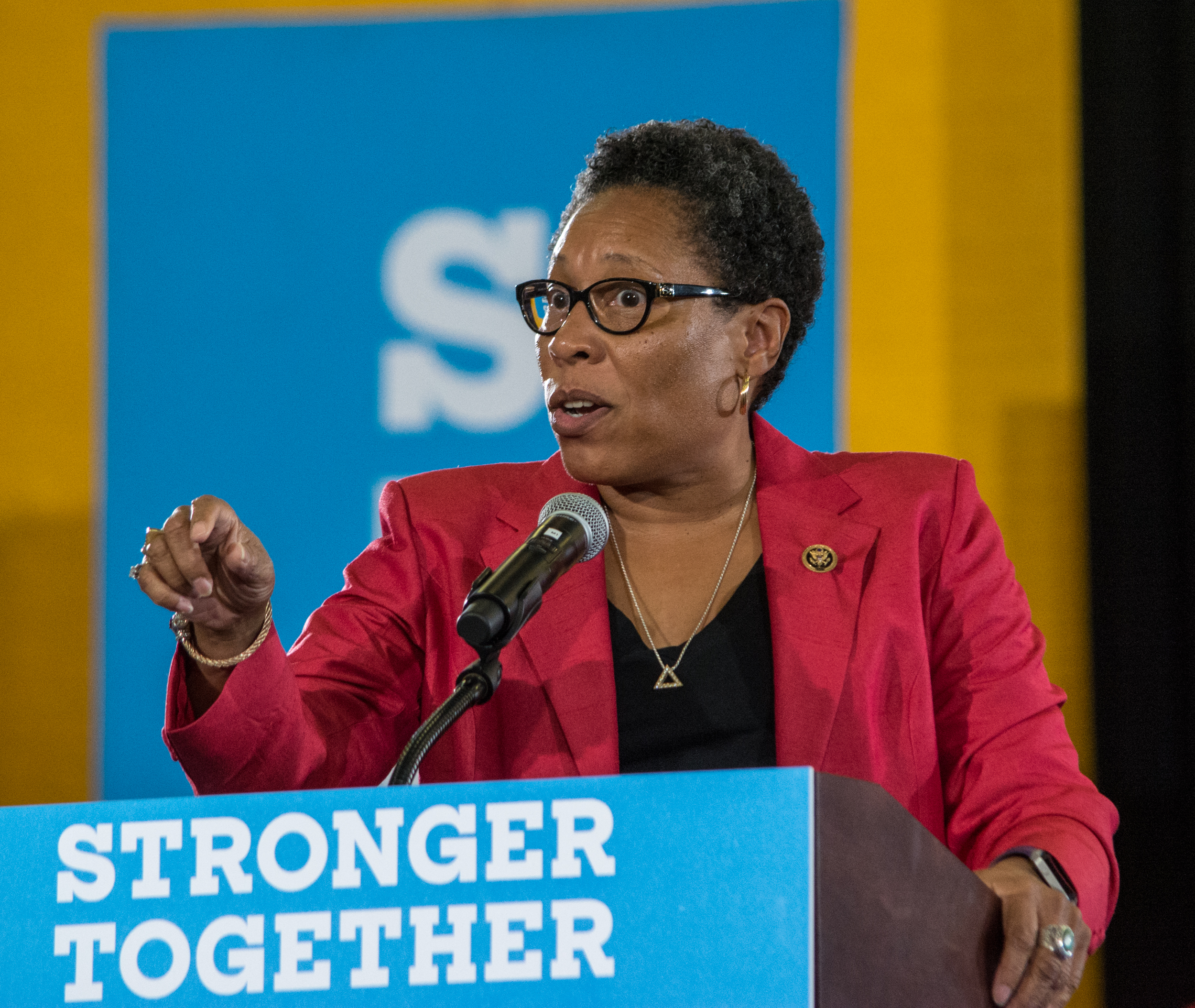 Rep Marcia Fudge 02 - Akron Ohio - 2016-10-03